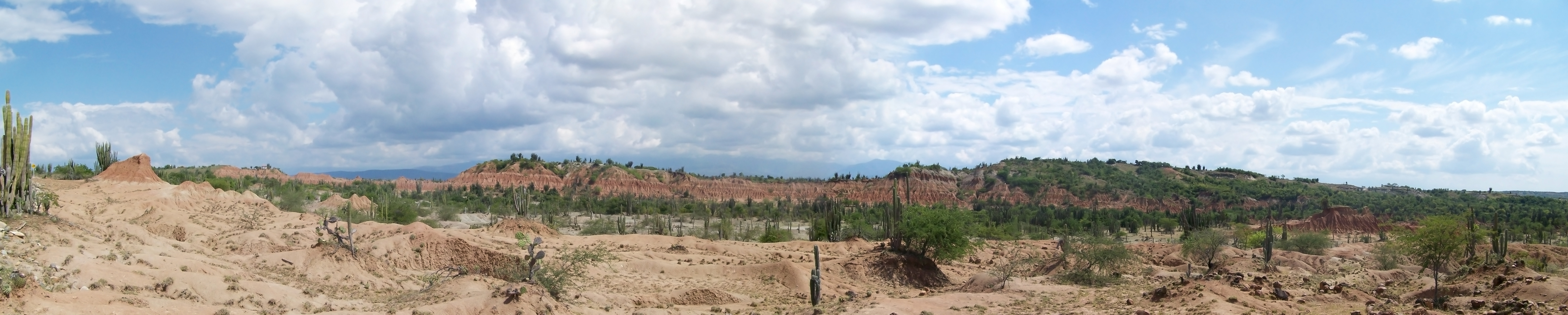 Stitched Panorama